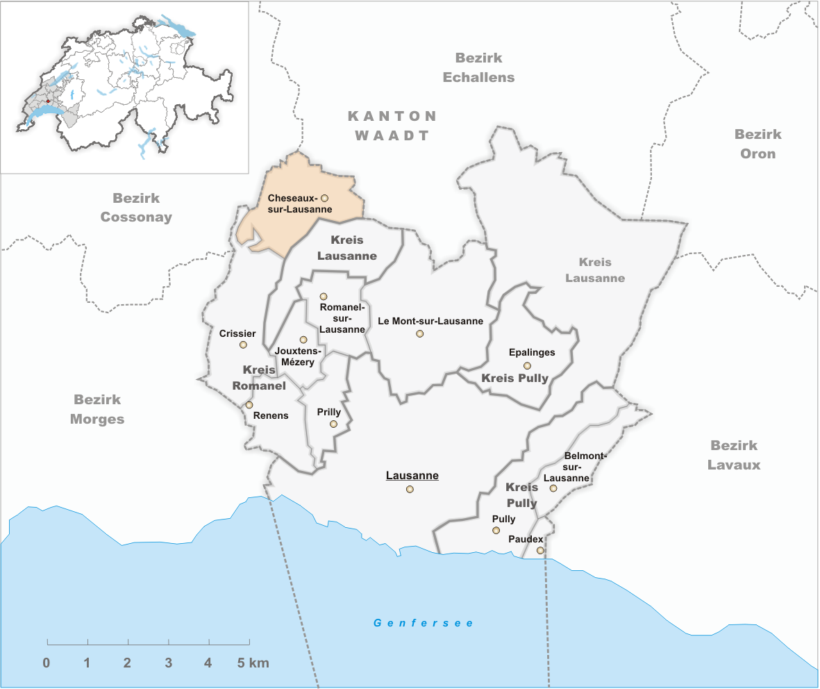 Municipality Cheseaux-sur-Lausanne